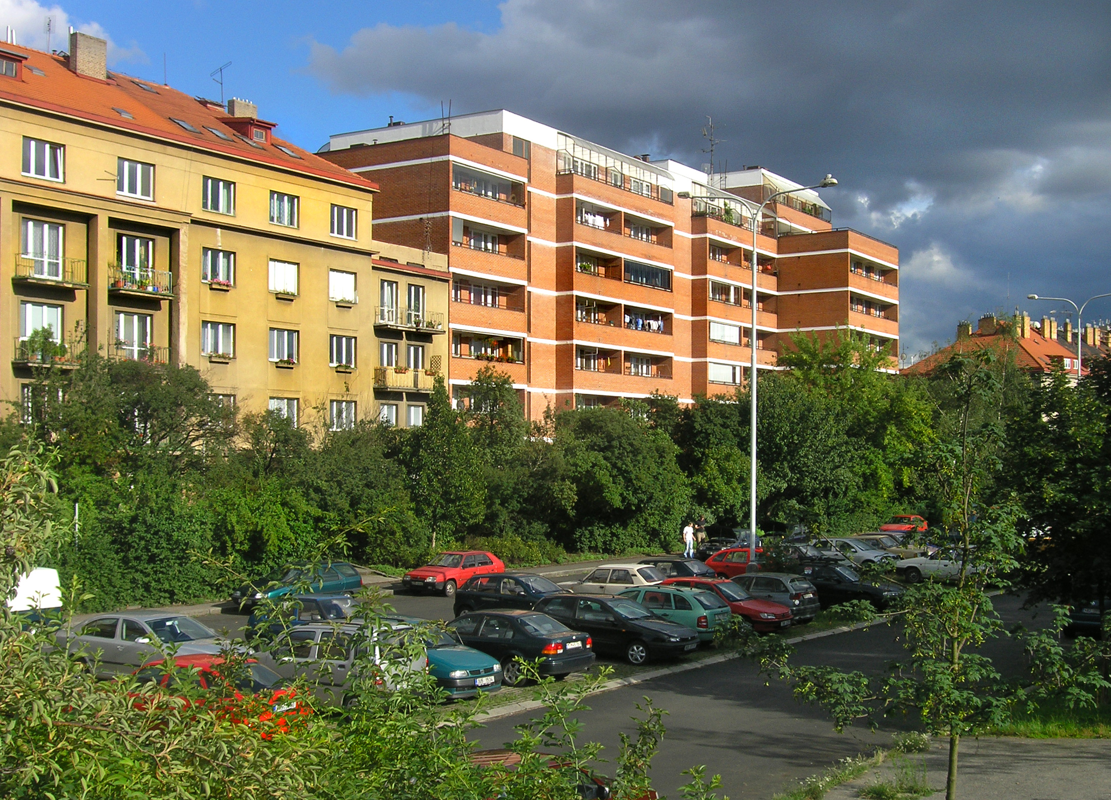 Houses at Na Mlejnku street at Podolí, Prague